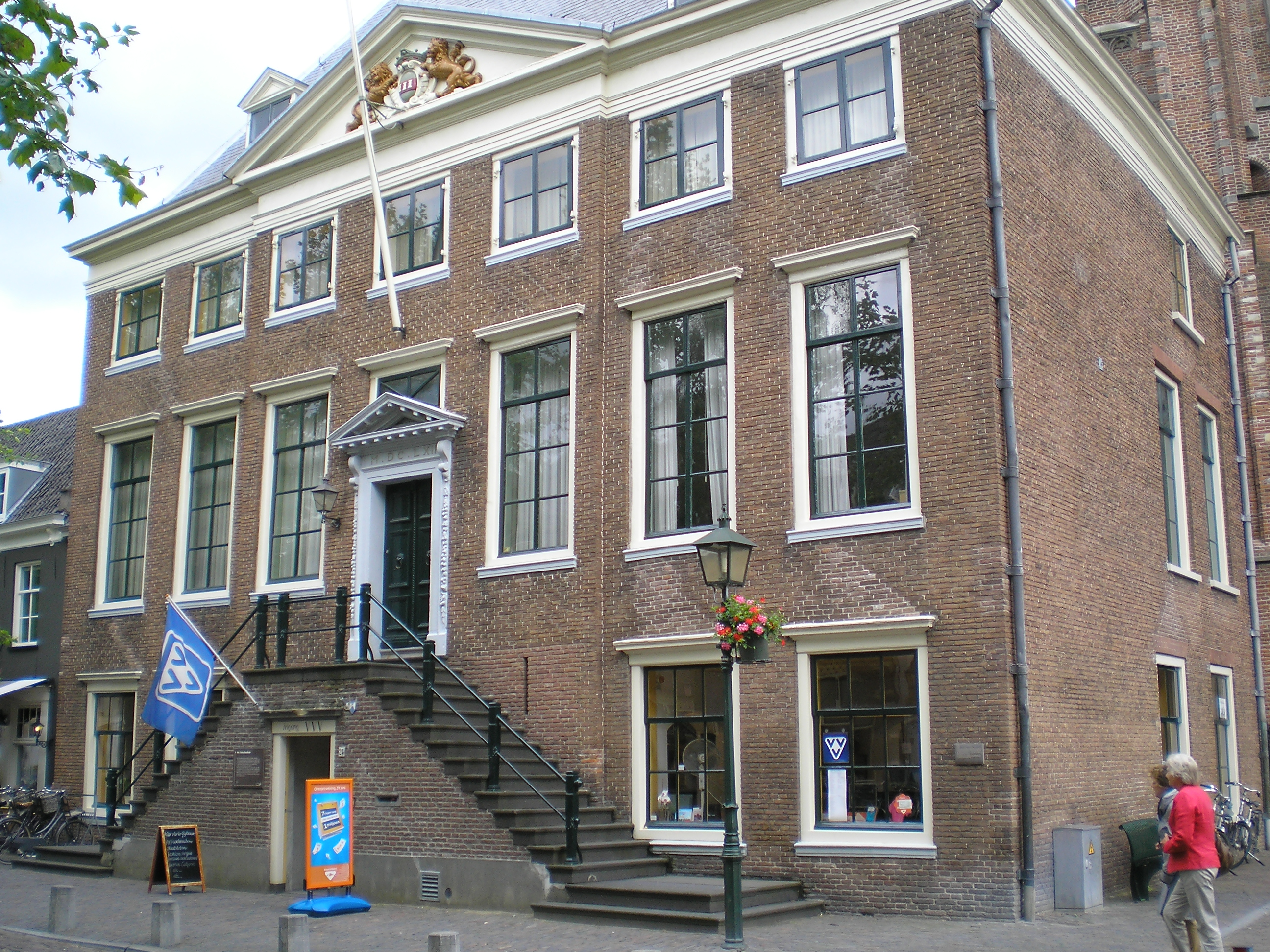 The former town hall and the 24 in Wijk bij Duurstede in Netherlands